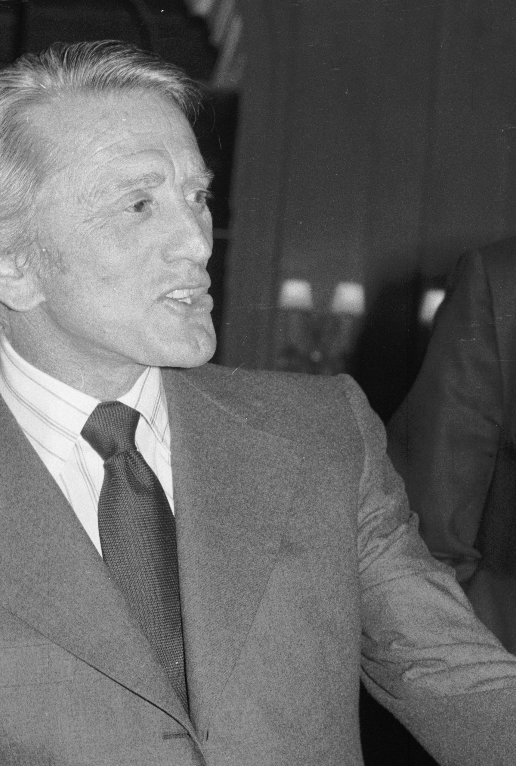 Kirk Douglas